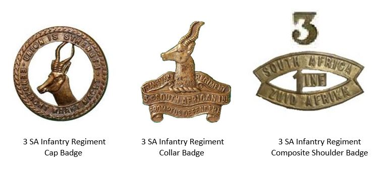 Union Defence Force 3 SA Infantry Regiment Insignia